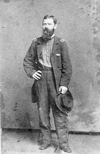 Daniel Tompkins Van Buren (Union Army Brigadier General)